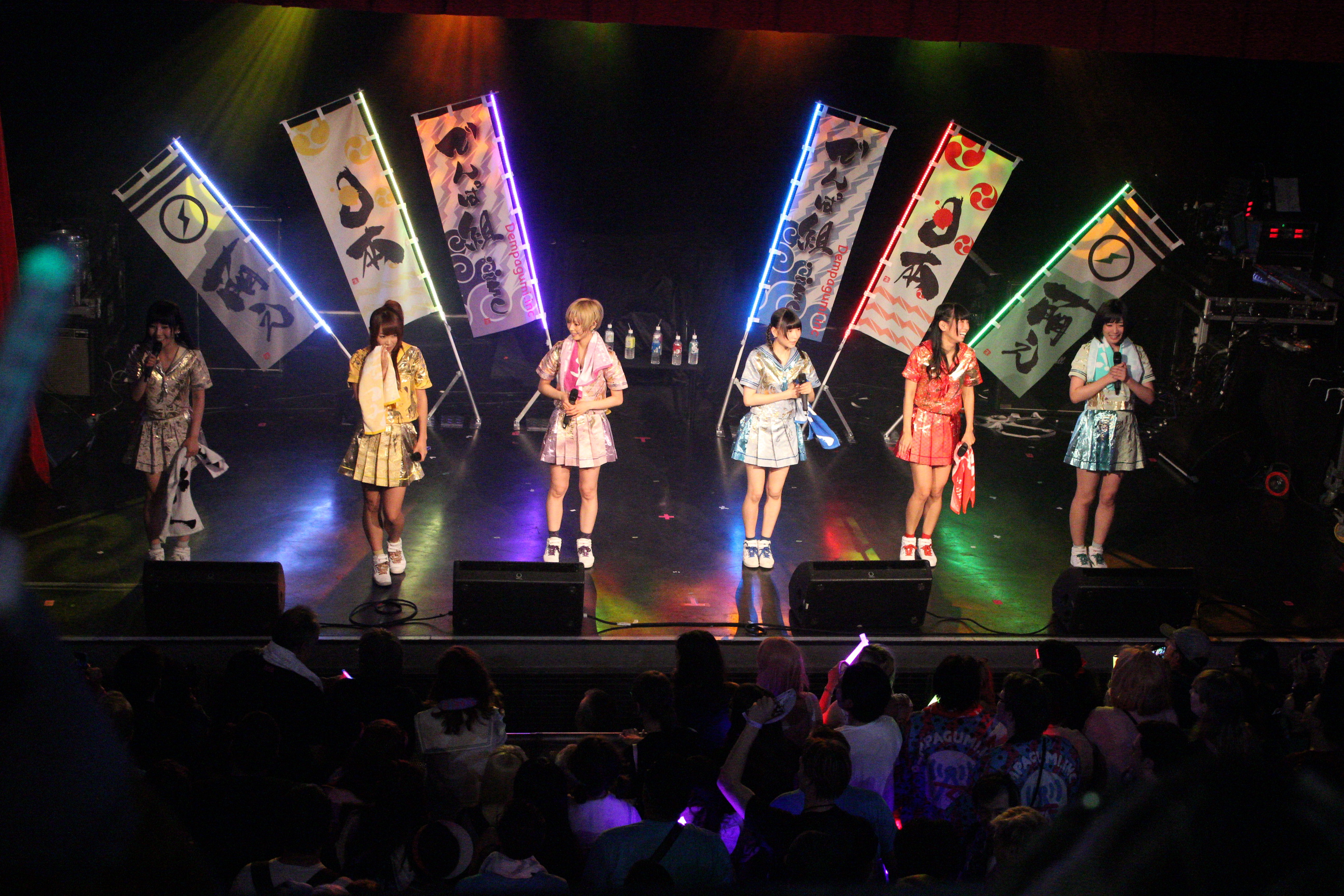 Japanese idol group Dempagumi.inc performing on stage at HYPER JAPAN summer 2015 festival, London, UK.